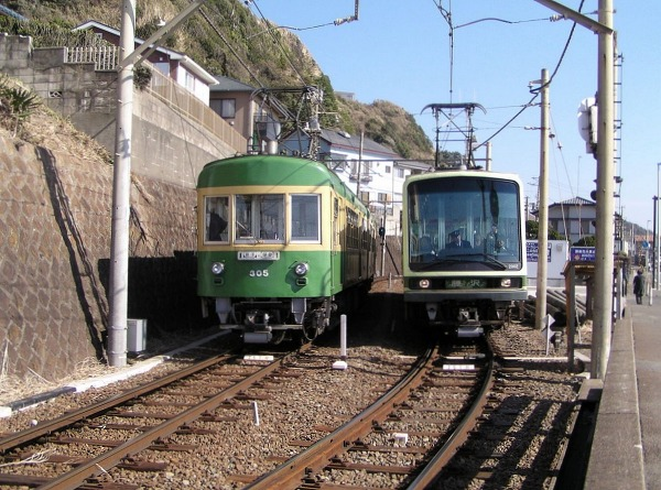 Enoden 305 (left) and 2002 (right) ECs passing the Minegahara Signal Station. View towards Shichirigahama Station, shot at 12:17 (JST), 3 March 2006